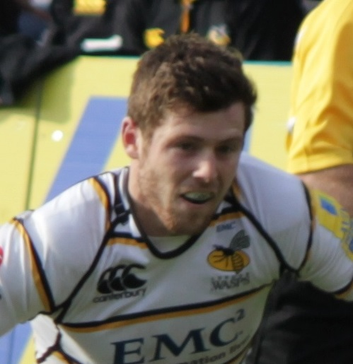 Elliot Daly playing for London Wasps in 2012